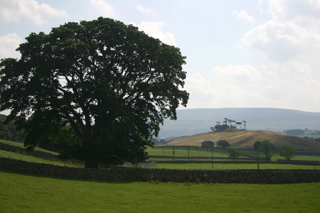 Lady Hill in Wensleydale. An extremely well known landmark, photographed from near Nappa Mill